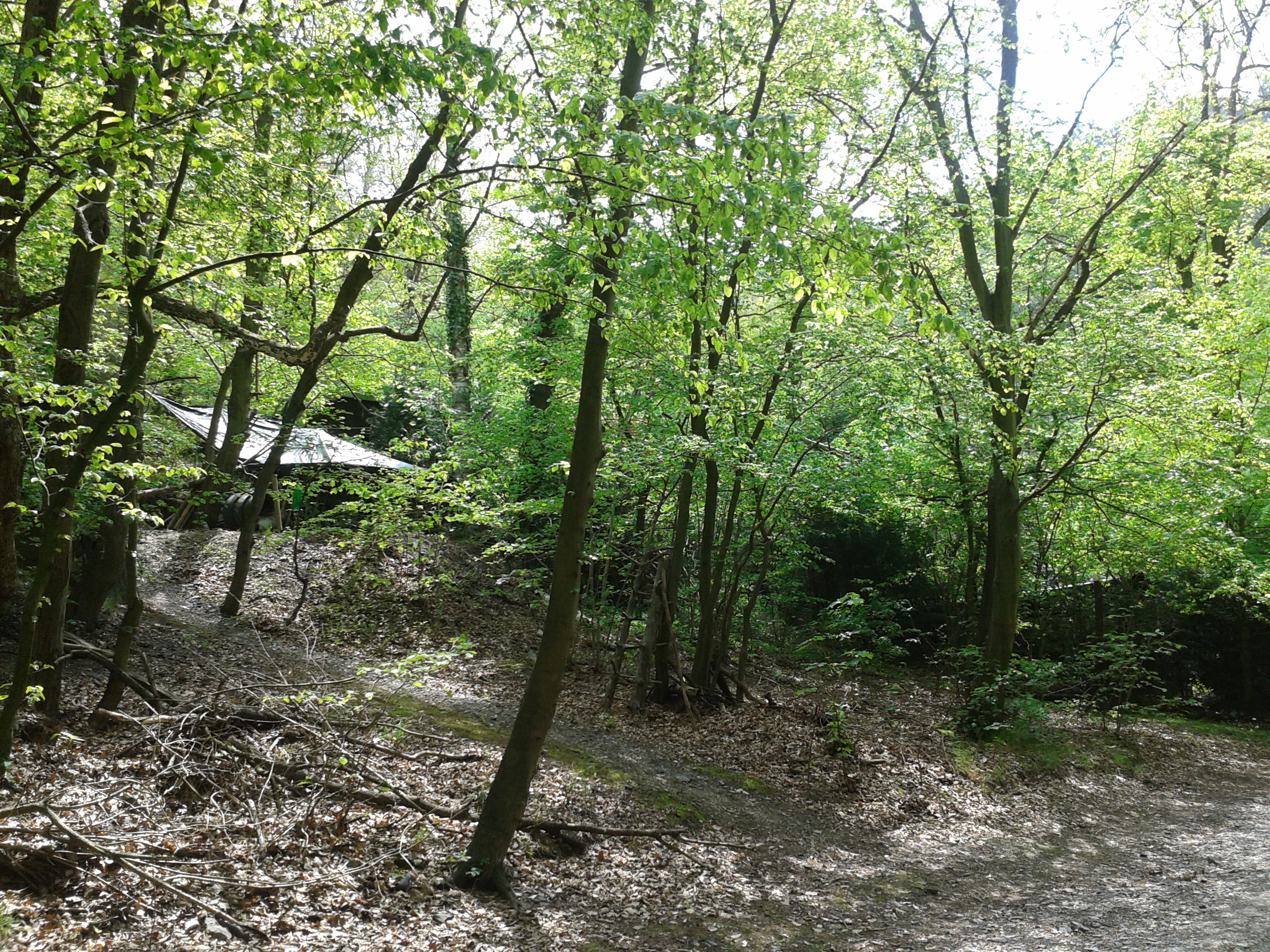 The Tramp settlement Na Place is well hidden from the view of the Točná Creek